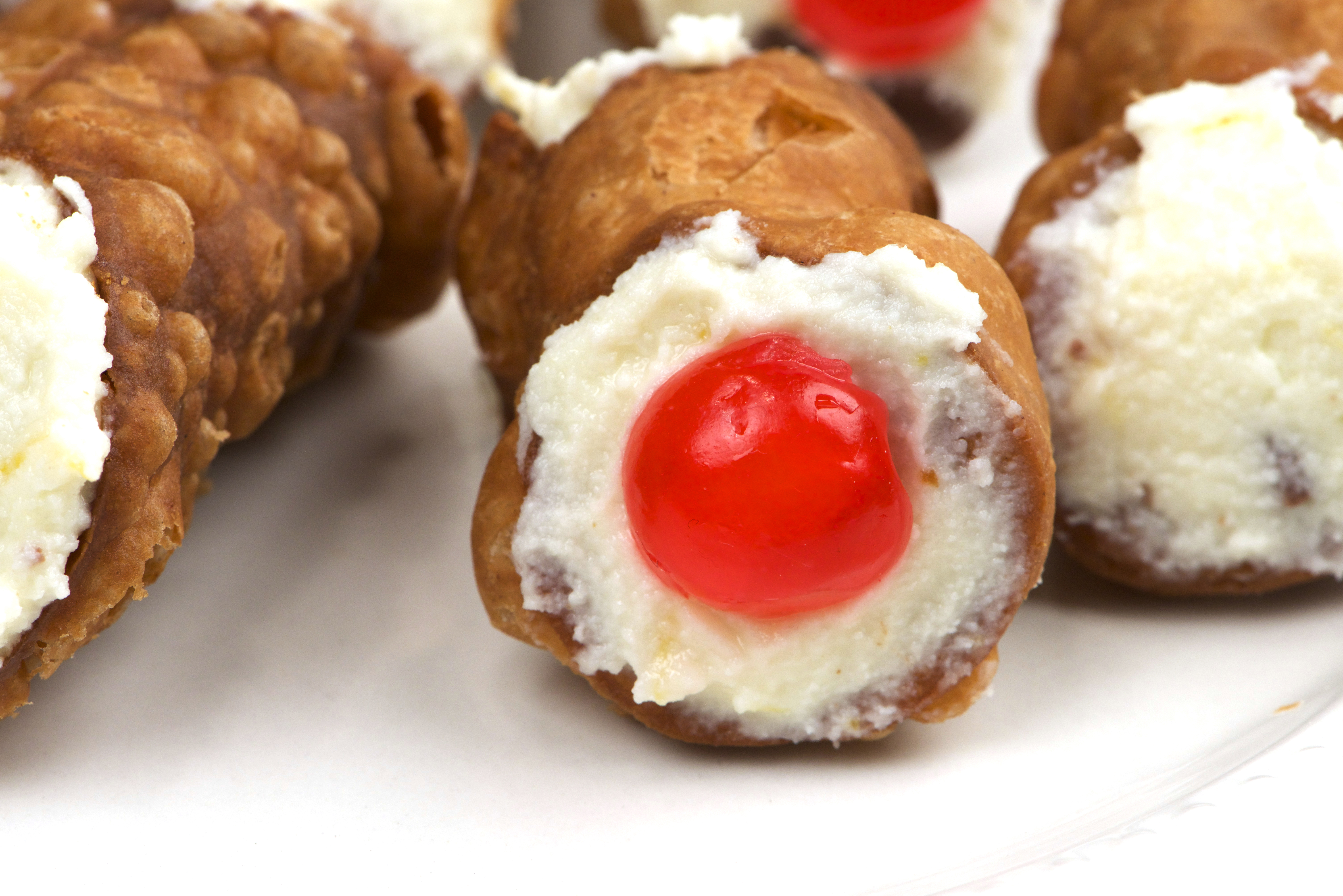 Sicilian Cannoli by my wife, Emilia Costa-Jackson